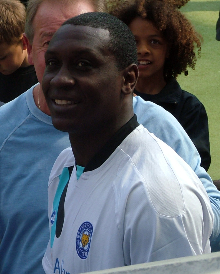 Emile Heskey